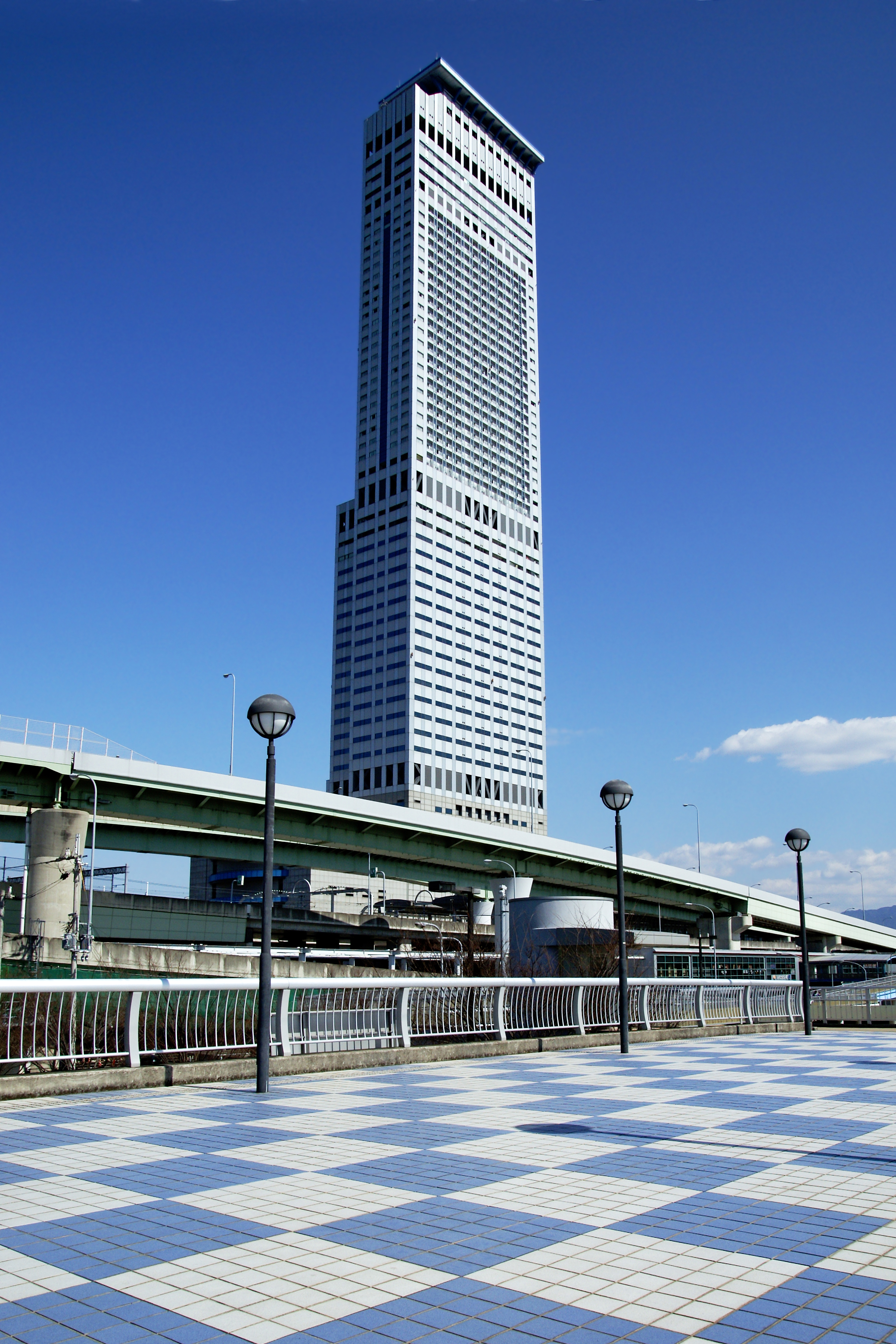 Rinku Gate Tower Building in Izumisano, Osaka, Osaka prefecture, Japan